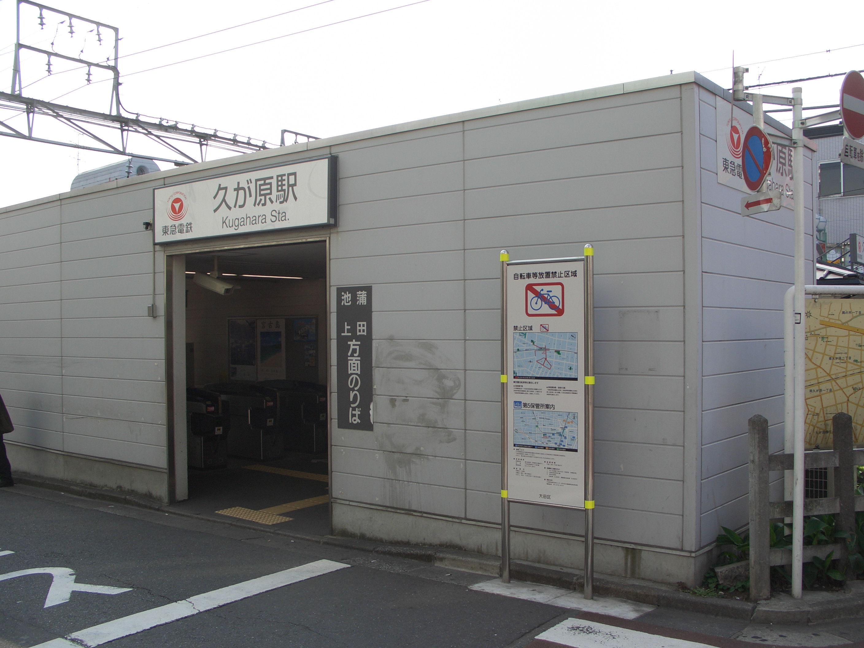 Tokyu Ikegami Line Kugahara Station, gate for Kamata